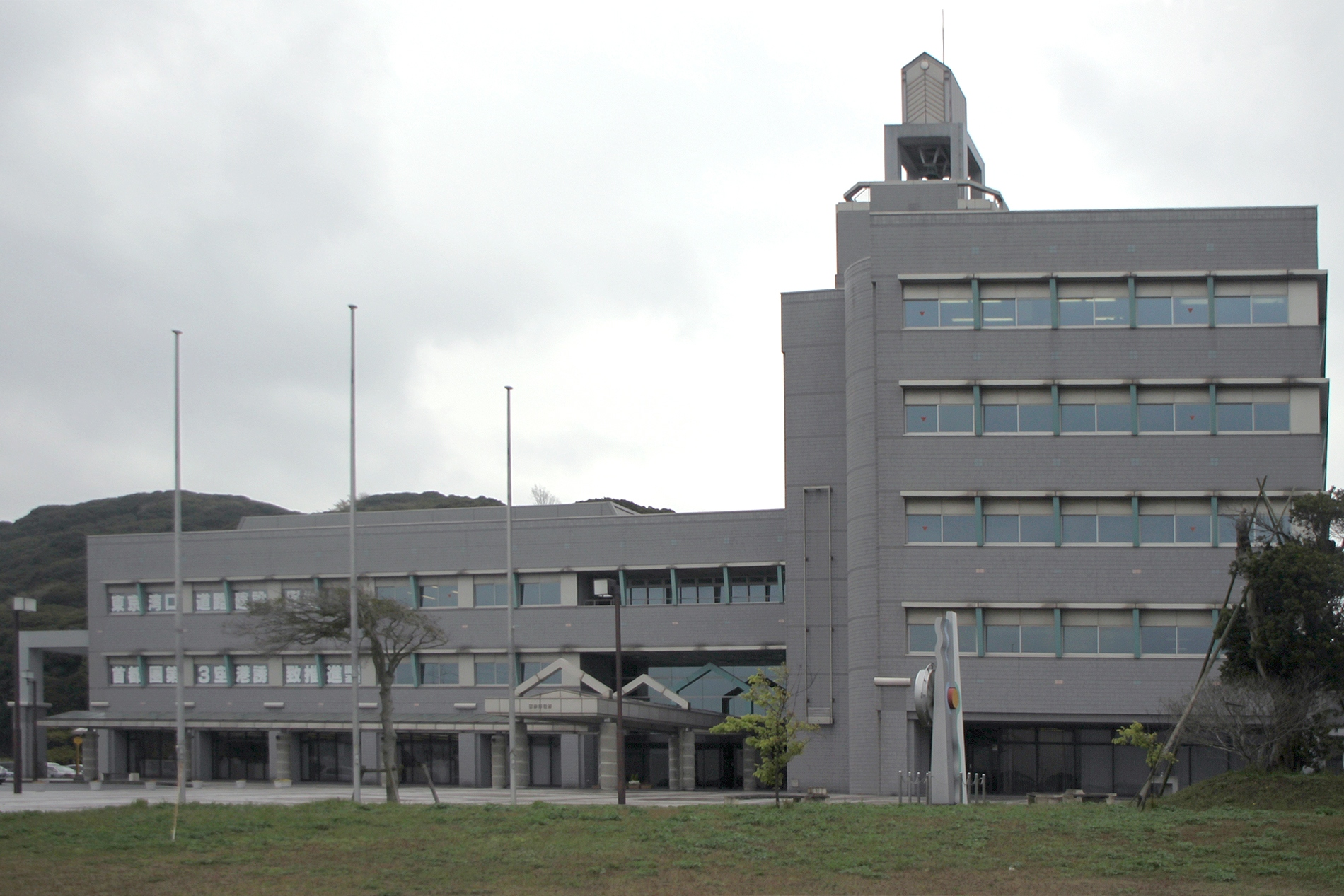 Futtsu City Office, Chiba, Japan